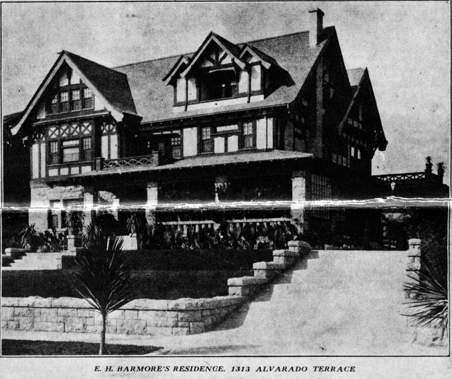 Photograph of Edmond H. Barmore residence in the Alvarado Terrace Historic District